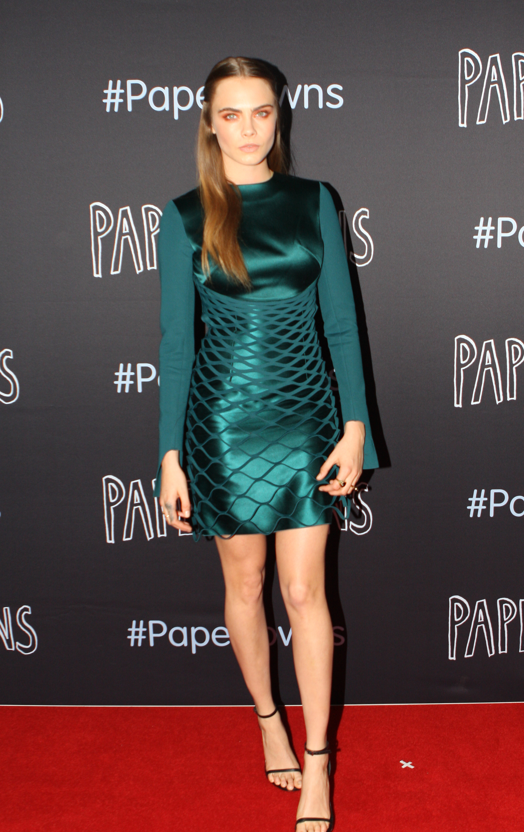 Paper Towns Australian Premiere